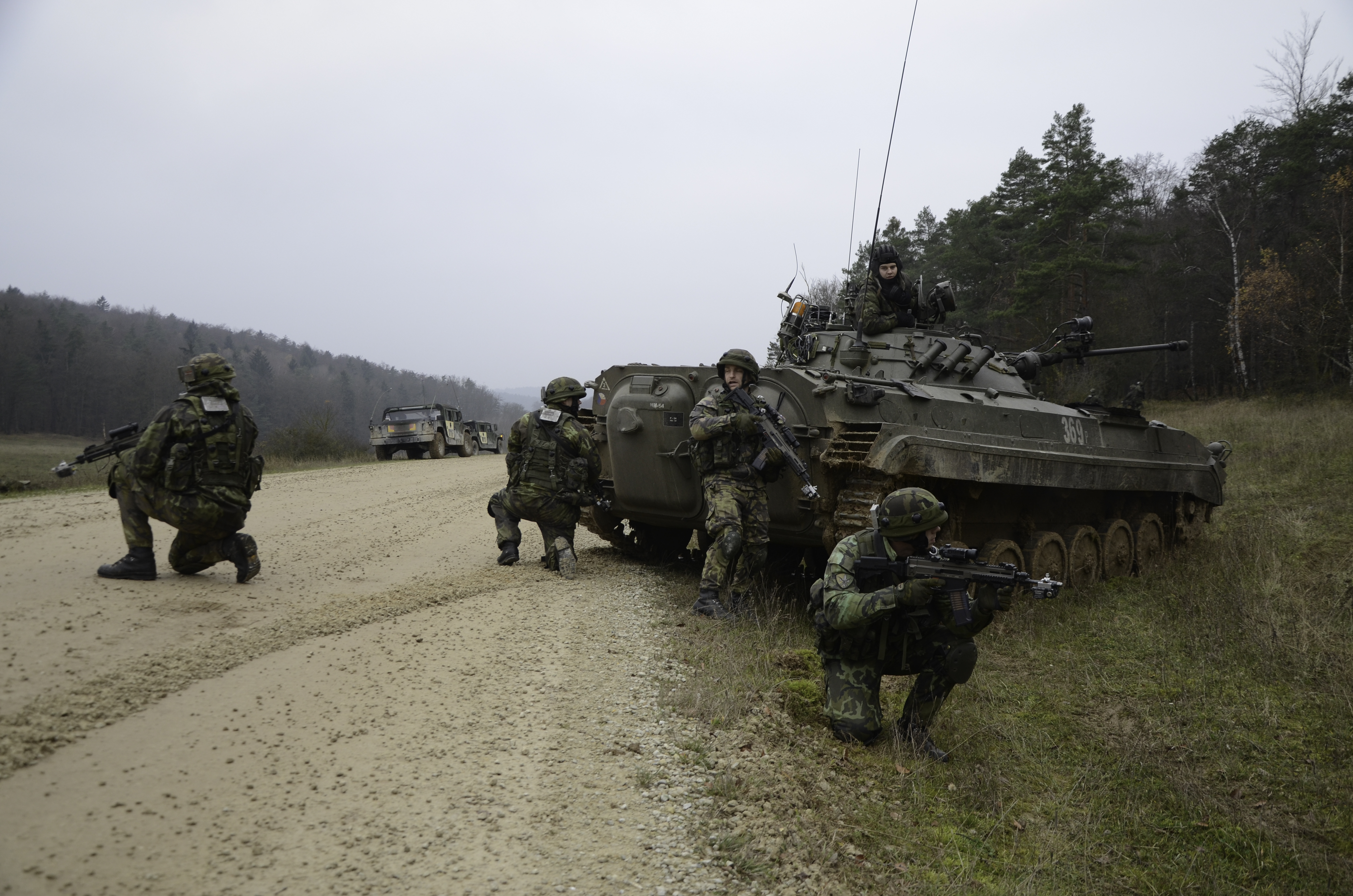 Czech Republic soldiers with the 72nd Mechanized Brigade provide security Nov. 17, 2013, during Combined Resolve at the Joint Multinational Readiness Center in Hohenfels, Germany. Combined Resolve is an annual U.S.-led combined arms exercise designed to prepare U.S. and European forces for multinational operations.